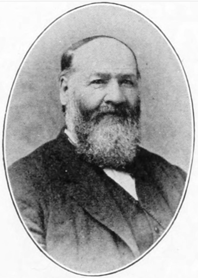 Massachusetts sea captain William D. Gregory (1825–1904) in middle age.